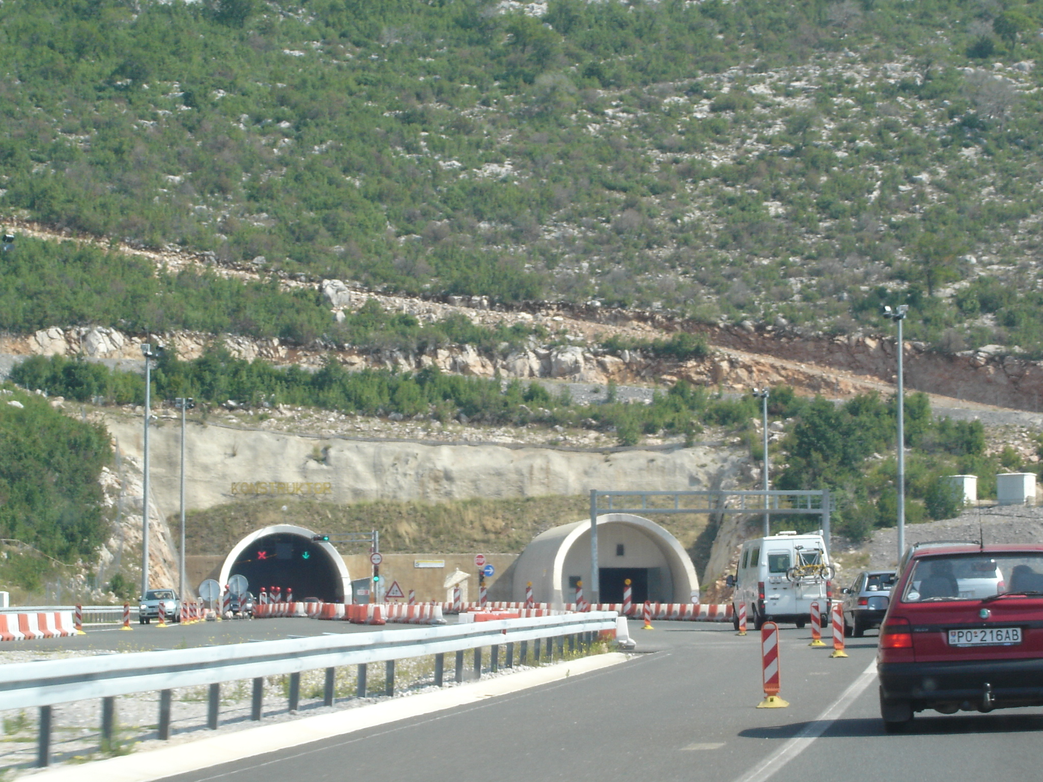 Southwestern entrance of the Sveti-Rok tunnel in Croatia.